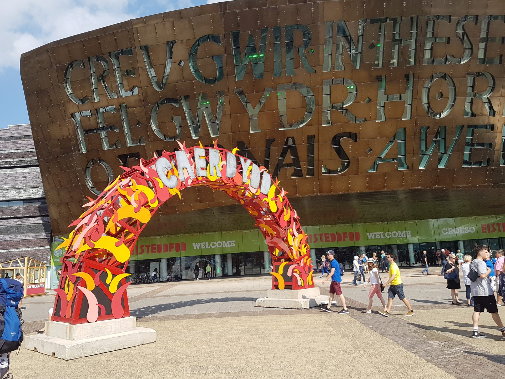 Decorative arch for the Eisteddfod in front of the Wales Millennium Centre, for the National Eisteddfod of Wales Cardiff 2018 held in Cardiff Bay